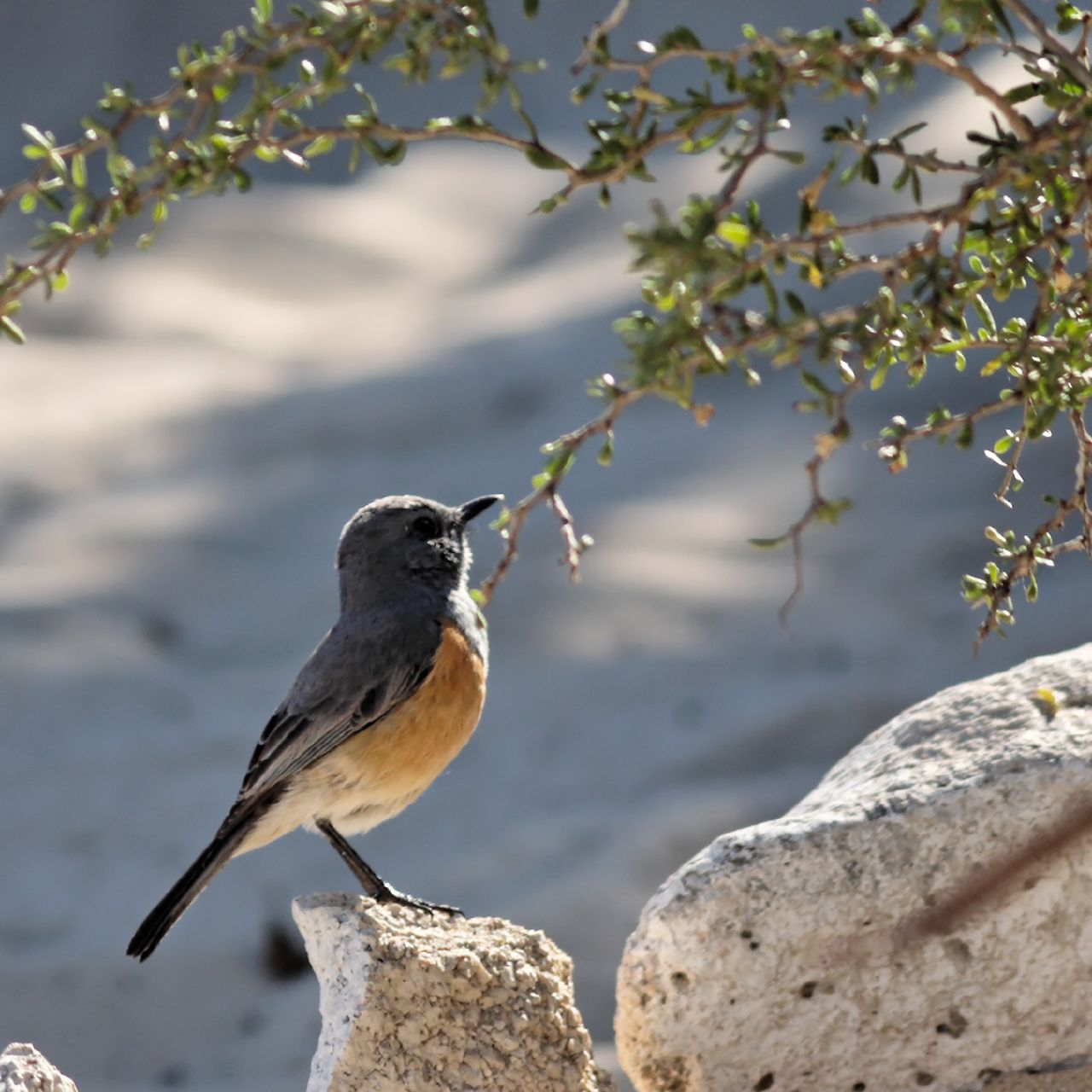 Littoral Rock Thrush (Monticola imerina erythronotus, Anakao, Madagascar)